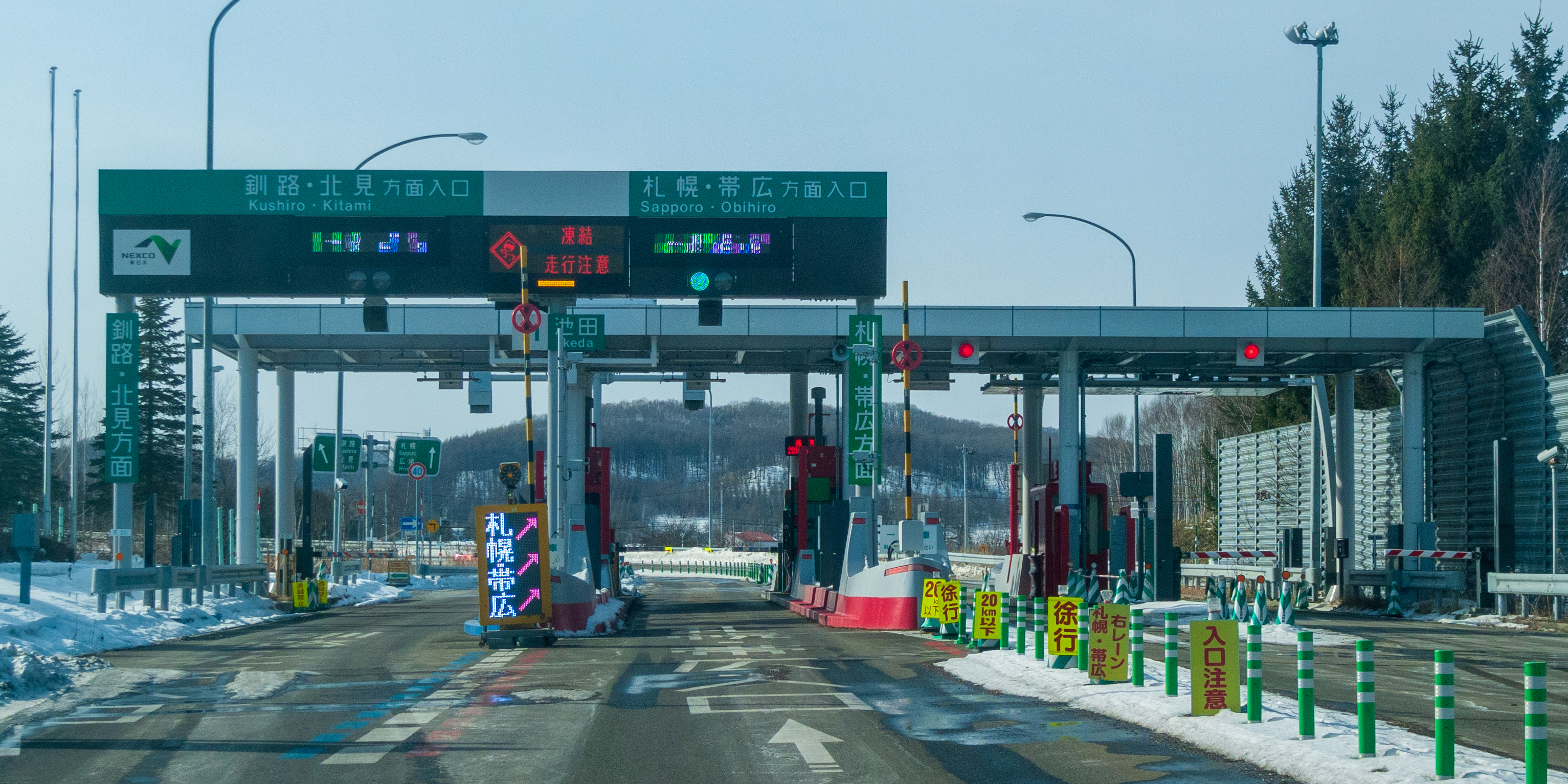 Doto Expressway Ikeda Interchange in Ikeda Town, Hokkaido, Japan